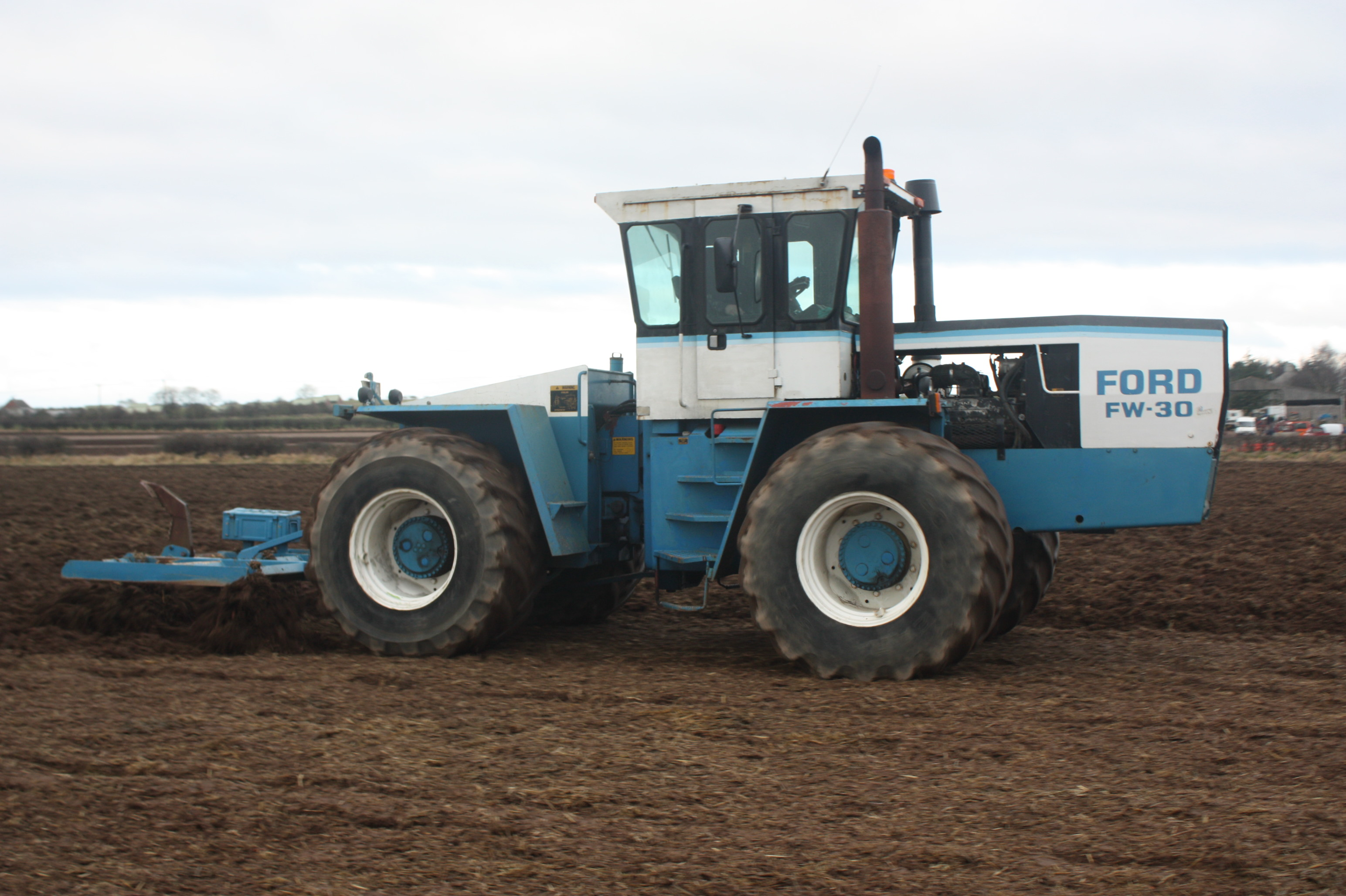 Ford FW-30 with subsoiler